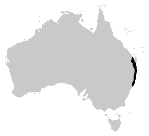 Distribution of the Green Thighed Frog (Litoria brevipalmata) User:Froggydarb/GFDL-self